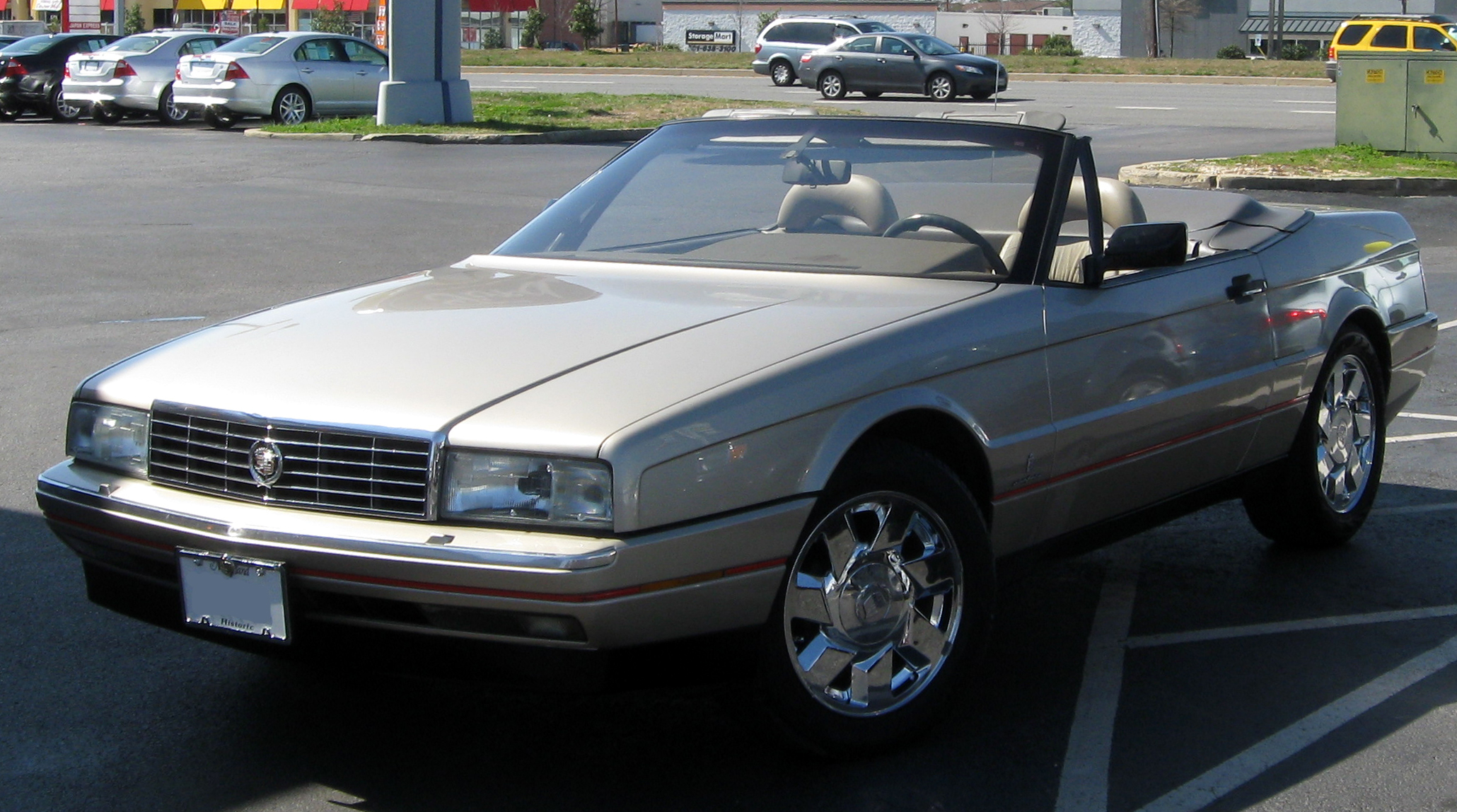 Cadillac Allante photographed in Waldorf, Maryland, USA.